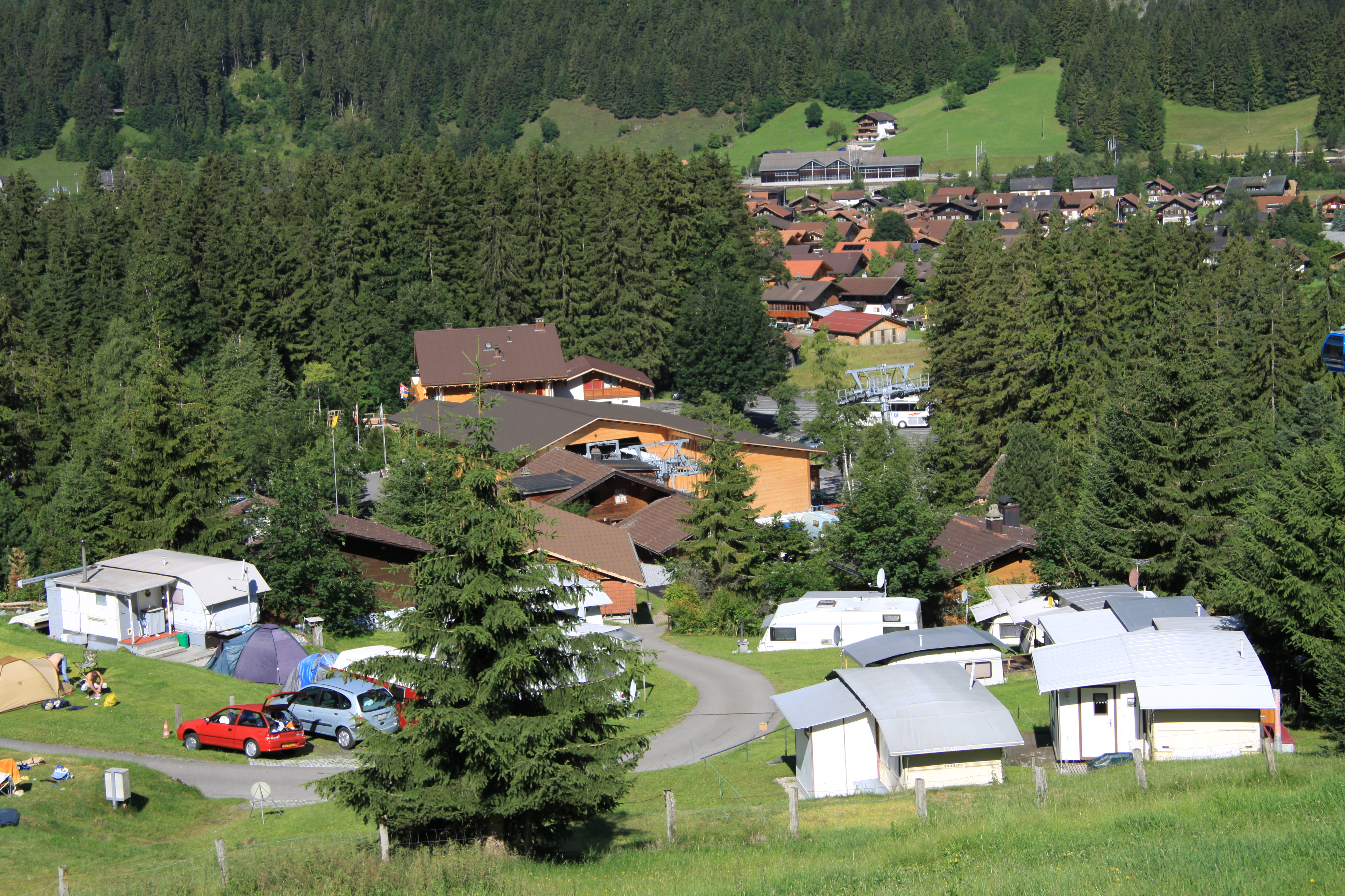 Kandersteg, in the Bernese Oberland, Switzerland.